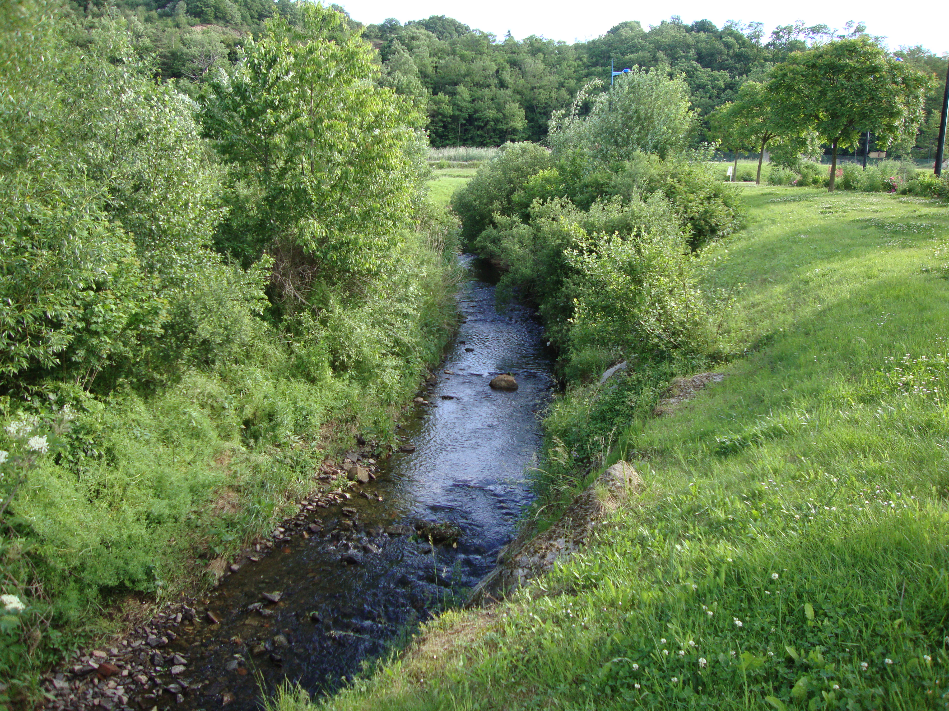 Le Chambon-Feugerolles (Loire, Fr) Ondaine (river), Quartier du Puis du Marais